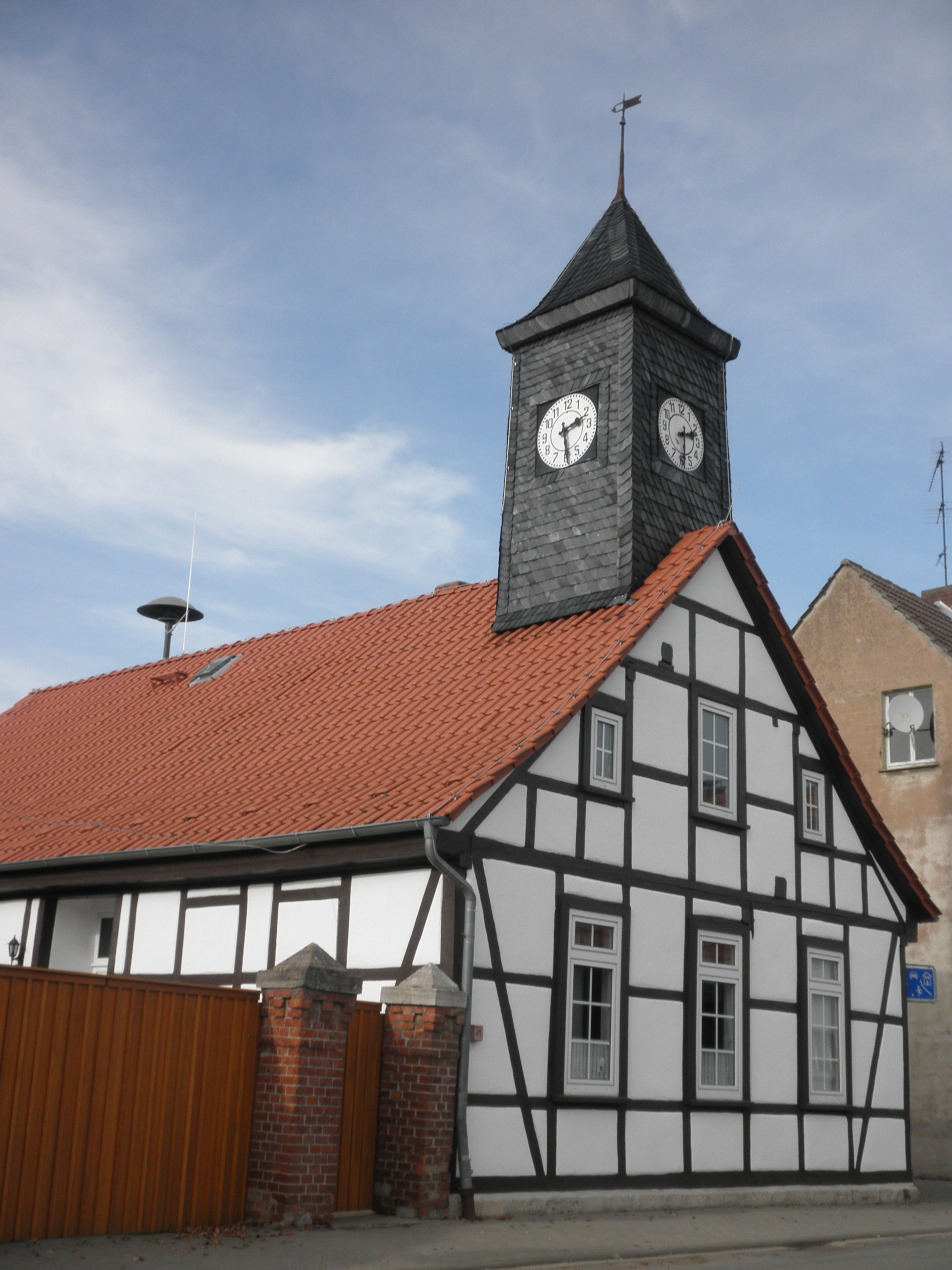 Halftimbered House in Großberndten (Sondershausen) in Thuringia